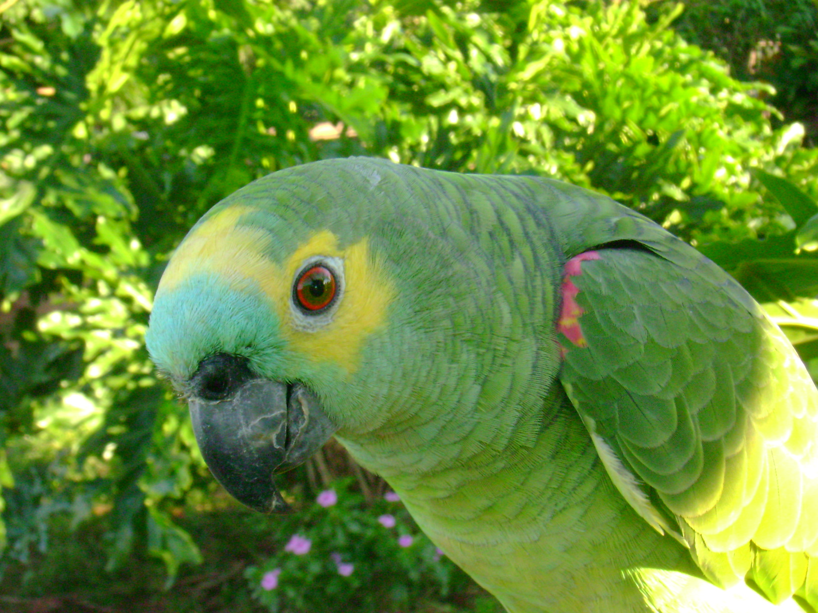 Blue-fronted Amazon. Photograph shows upper body. A pet bird in Santa Cruz do Monte Castelo, Paraná, Brazil.